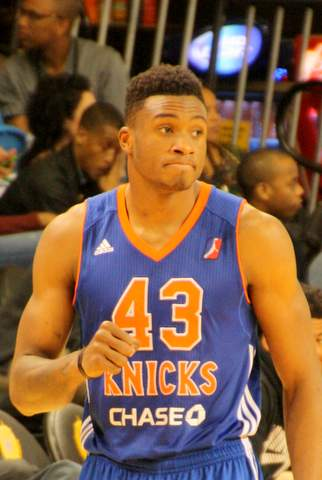 Thanasis Antetokounmpo of Westchester Knicks